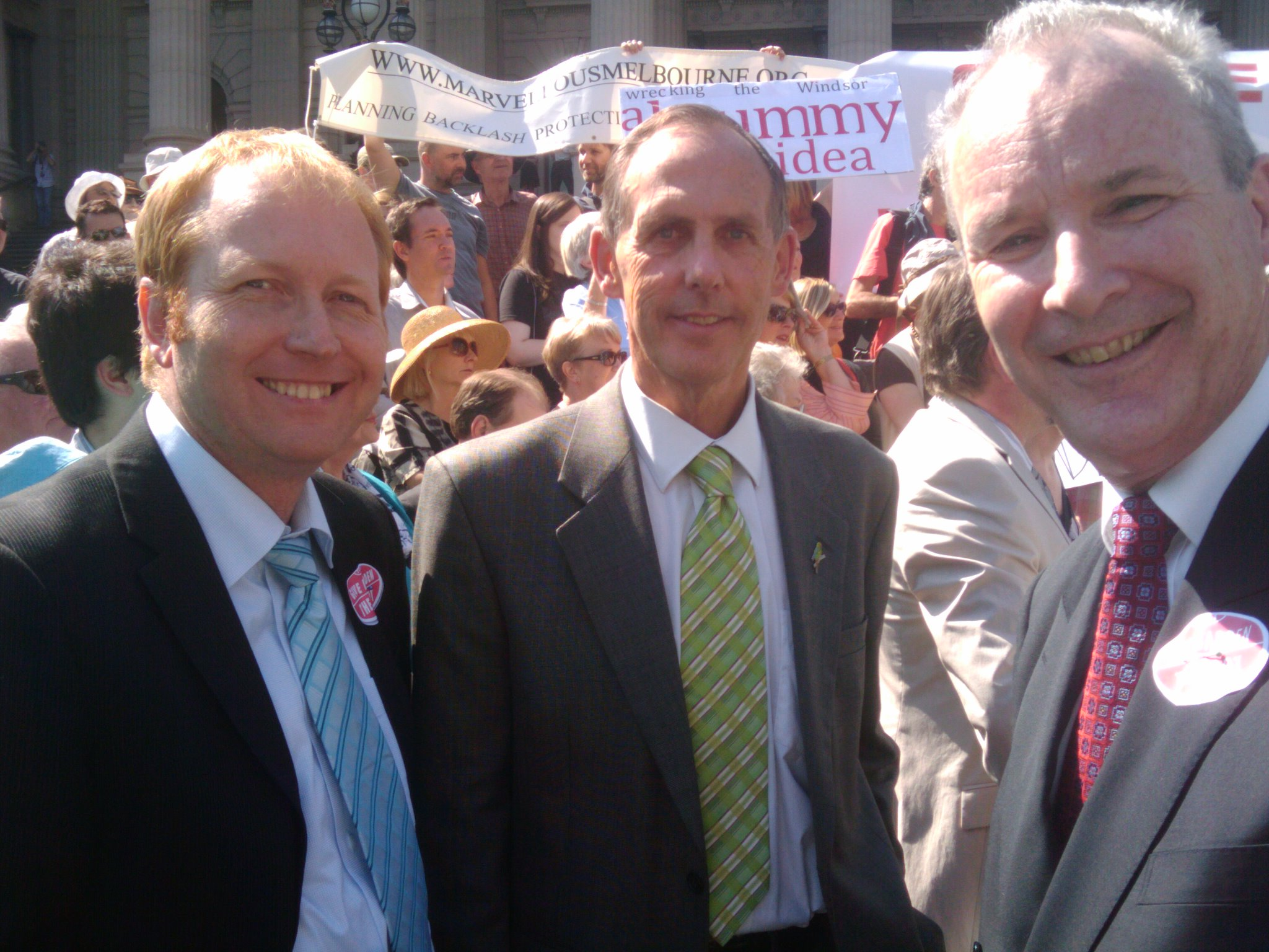 Greg Barber MLC, Senator Bob Brown and Brian Walters attending a protest rally on the steps of the Victorian Parliament